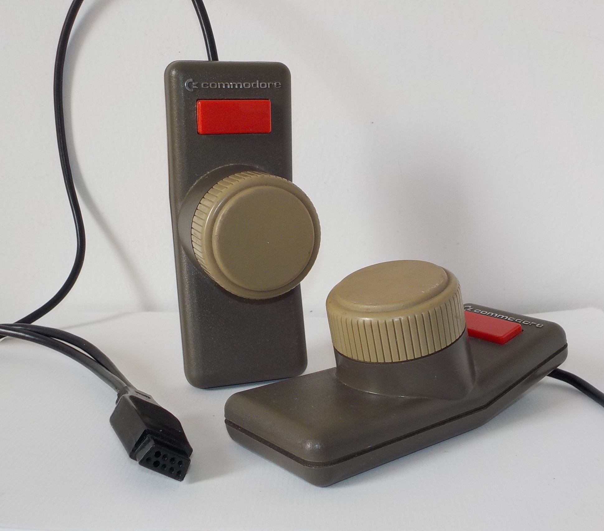 Commodore paddles, first model